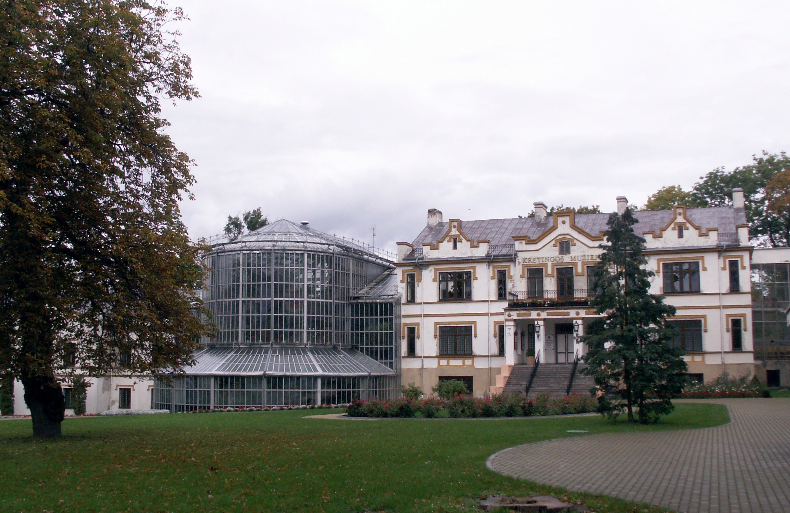 Kretinga manor, Kretinga museum Lithuania